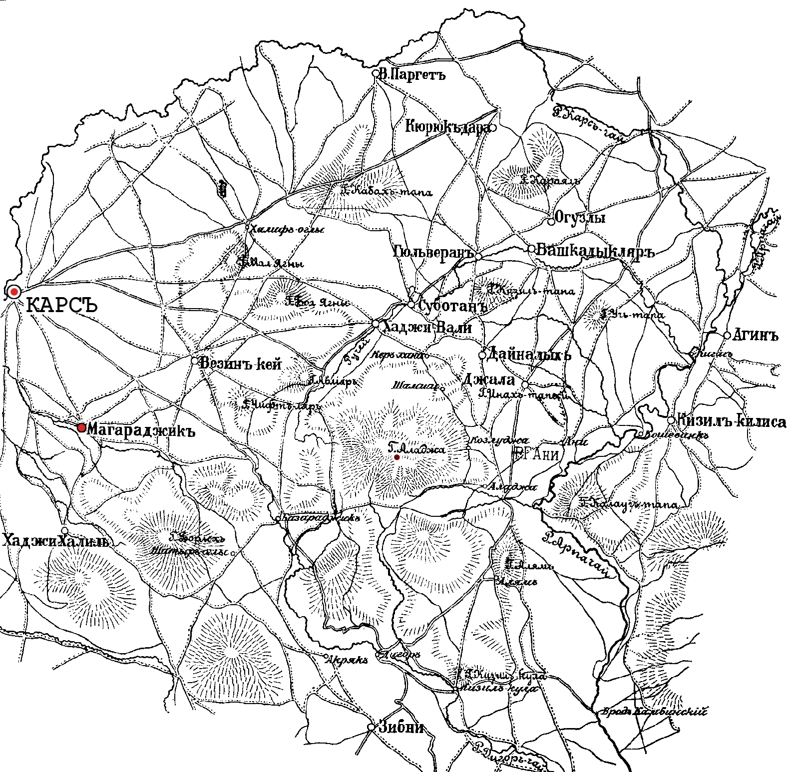 Russian-Turkish war of 1877-1878. Military operations in the vicinity of Mount Aladzha in autumn 1877, from the book: Военная энциклопедия / Под ред. В. Ф. Новицкого и др. — СПб.: т-во И. В. Сытина, 1911—1915. — Т. 1.— С. 225.